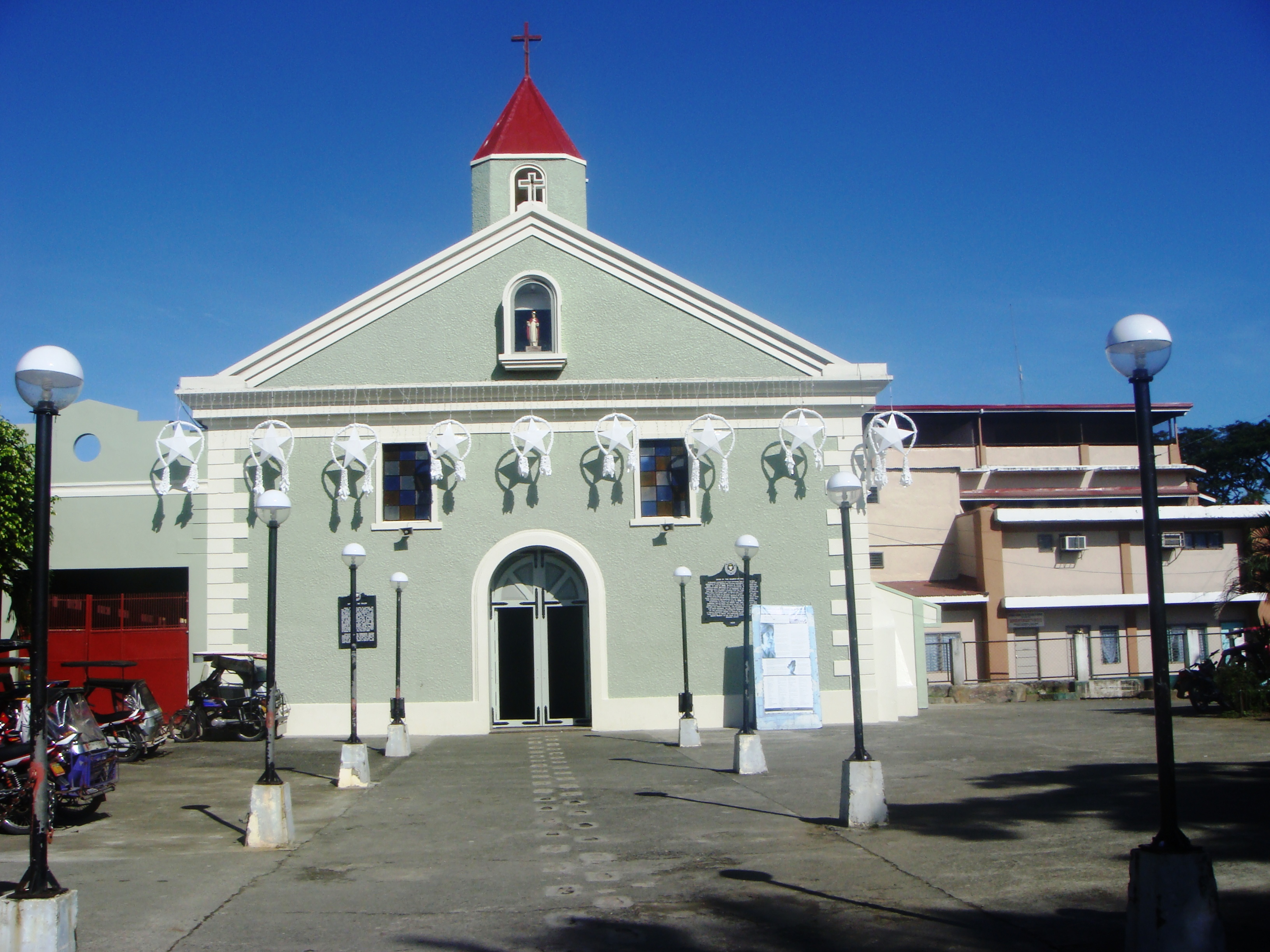 1611, Baler Church – (San Luis Obispo de Tolosa church famous for the Siege of Baler in 1898–1899 between the Philippine Revolutionary forces and Spanish troops during the Philippine Revolution and Spanish-American War)[1].